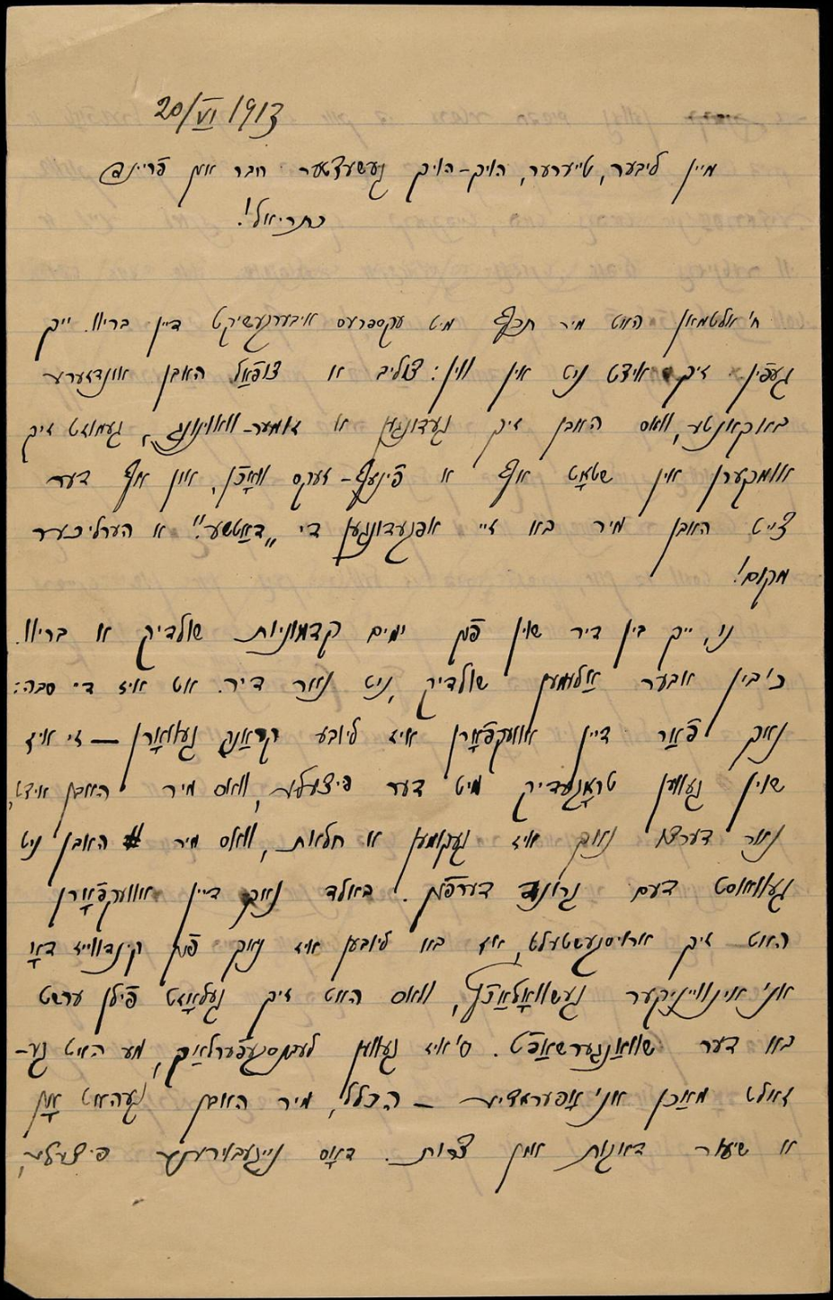 A letter from Ber Borochov in a dacha near Vienna to “Kasriel” who was Leon Khazanovich (see L. Khazanovich, The Jewish pogroms in November and December 1918, Acts and Documents, Stockholm, 1918) in Berlin, 1913, about the birth of Borochov's daughter, Shoshana, and the illness of his wife Lyuba during the pregnancy and afterward; about Borochov’s philological bibliographic scholarship; about Yiddish research that appeared in the anthology Pinkes; and about his own ill health. He suggested that Kasriel would try to obtain the vacant post of Berlin correspondent for the New York Yiddish newspaper Di Varhayt, and attempted to answer Kasriel's questions about the state of Socialism and Industrialisation in South America. He confessed his ignorance on the subject, but suggested how Kasriel might research the matter. Yiddish; Four page fragment. RG 107, Letters Collection. (YIVO)